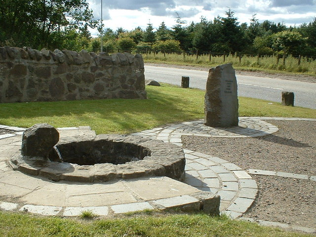 Kate's Well A spring named after St Catherine of Sienna to whom the nearby place of worship was originally dedicated (Now Kirk o' Shotts).